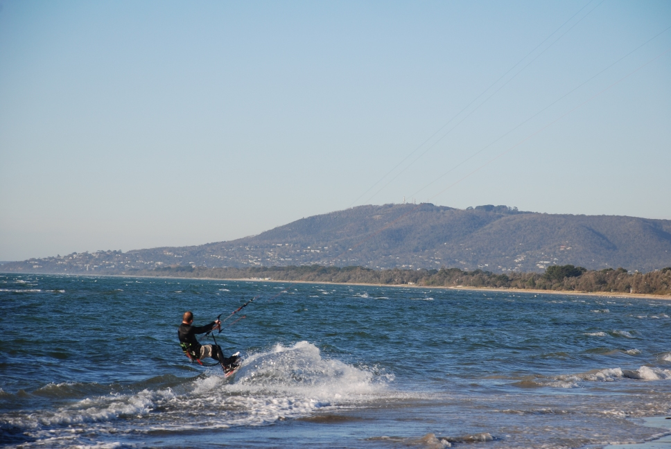 Kiteurfing at Rye, Australia